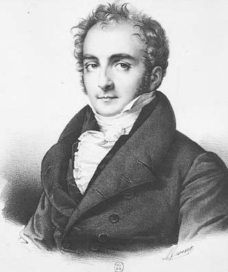 Casimir Perier (1777-1832), french statesman and banker